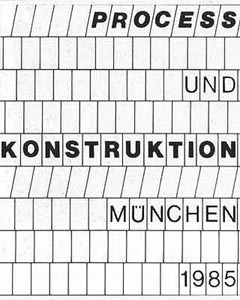 poster of the exhibition "Process und Konstruktion" - 2nd edition of the series "Construction in Process" - 1985 in Munich, Germany